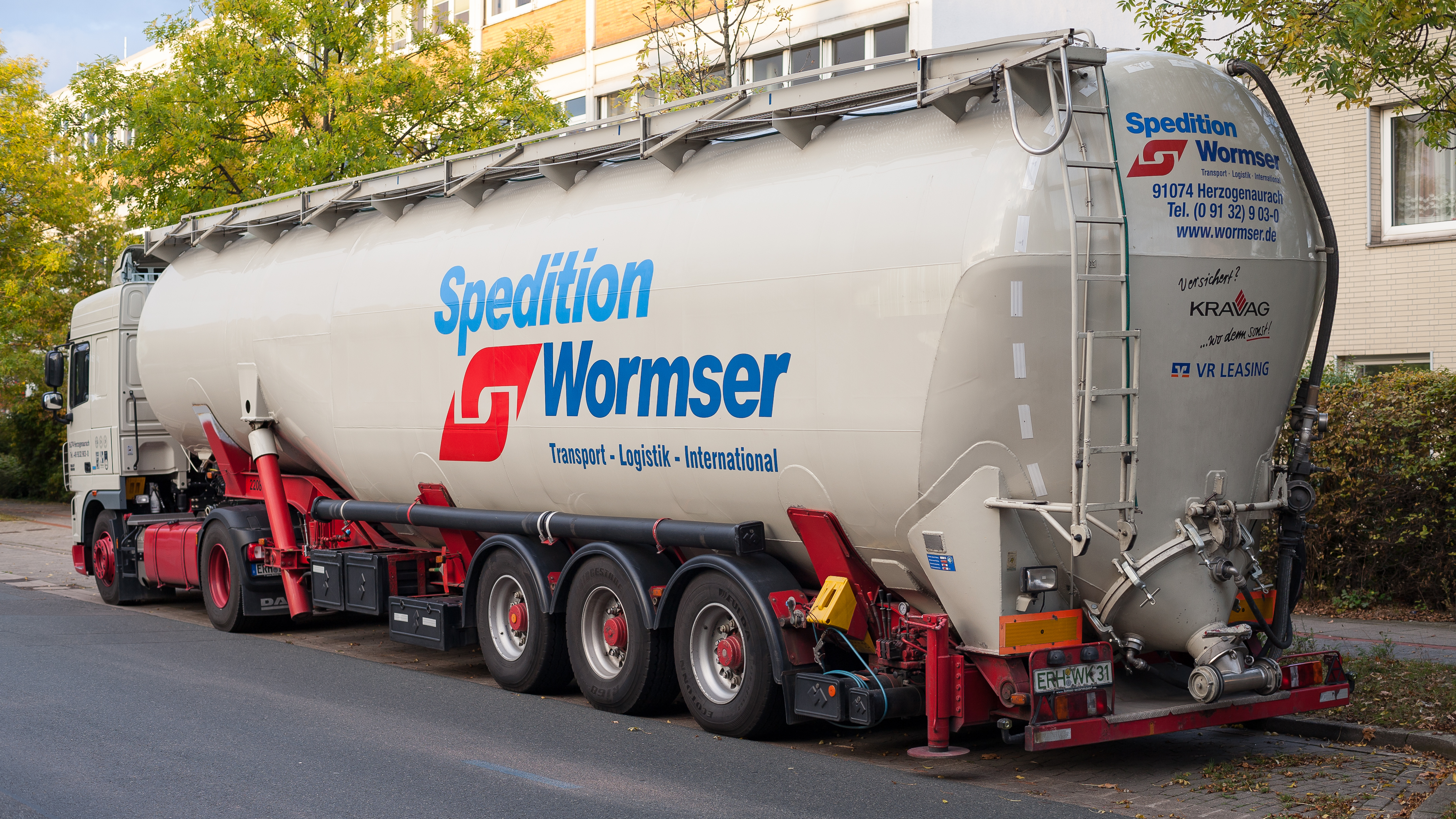 Silo truck with titable cargo container.